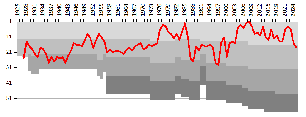 A chart showing the progress of Kalmar FF through the Swedish football league system. Horizontal black lines represent league divisions.